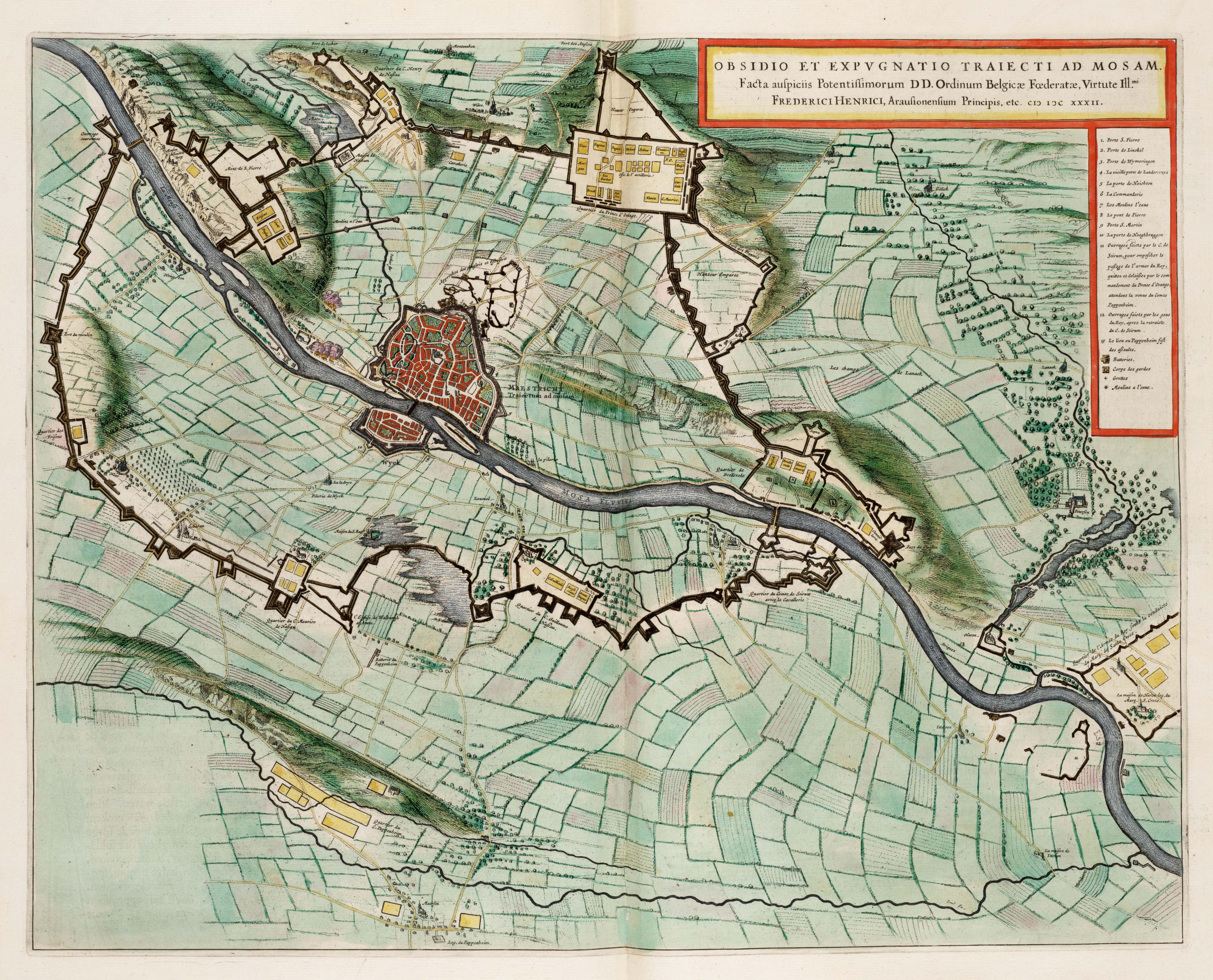 Siege and capture of Maastricht by Frederick Henry in 1632